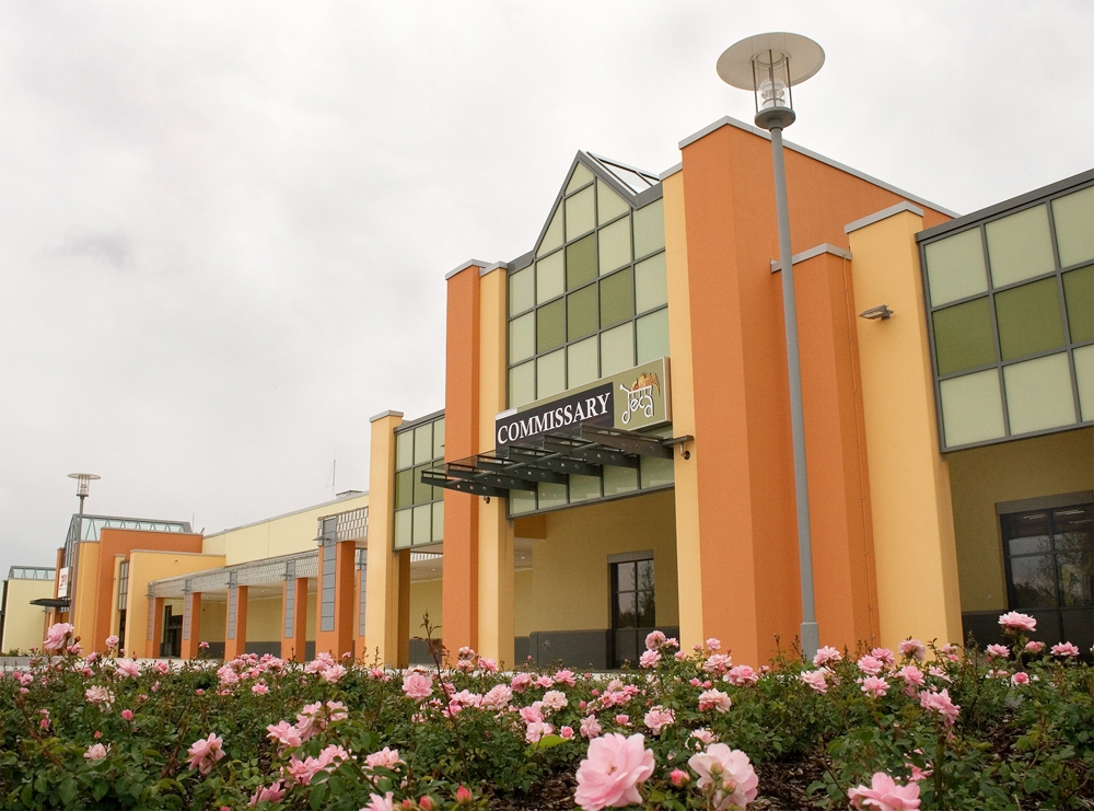 New commissary opened on U.S. Army Garrison Grafenwoehr in September 2007